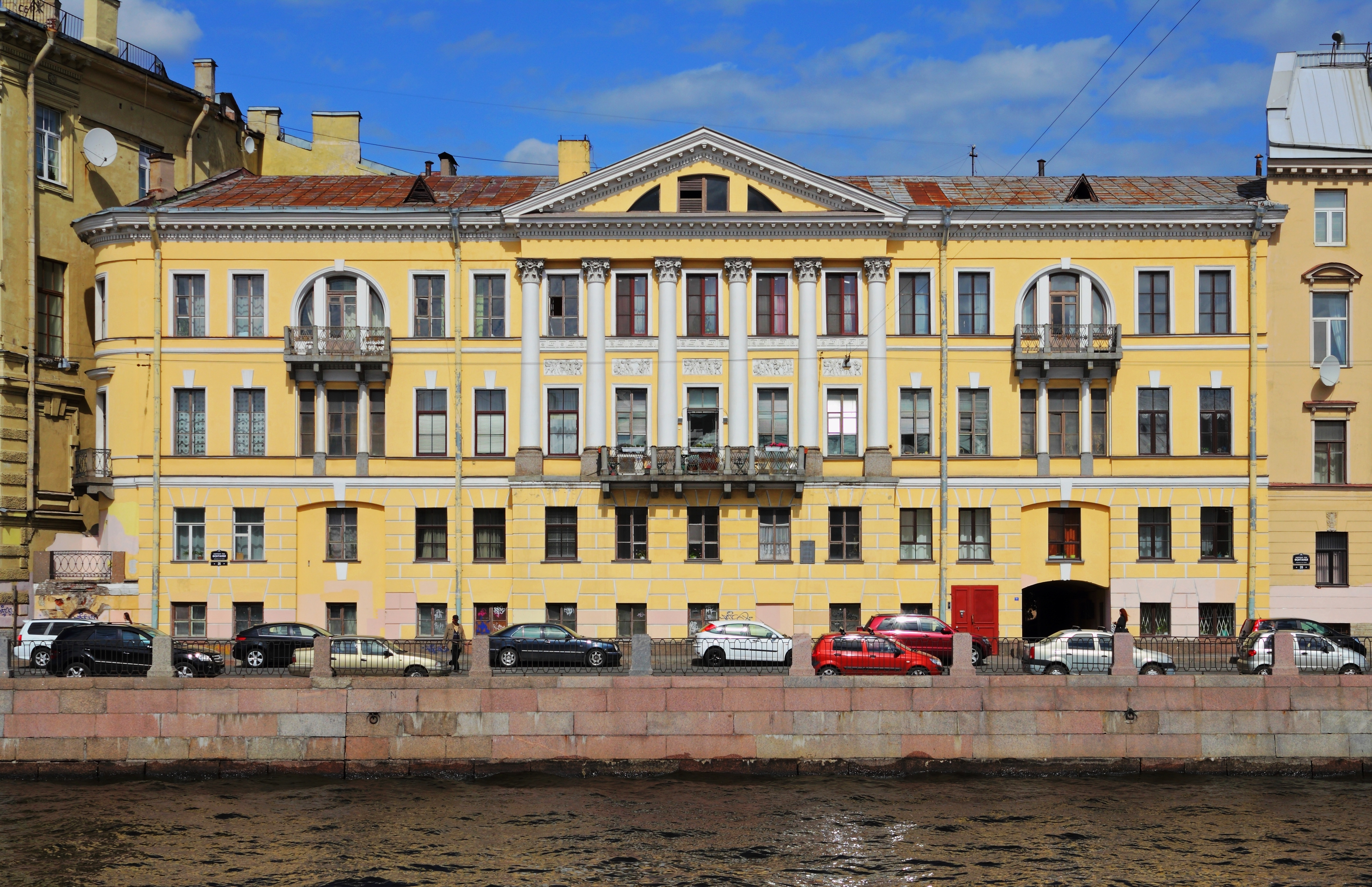 Saint Petersburg, Russia. Fontanka Embankment, house 26.